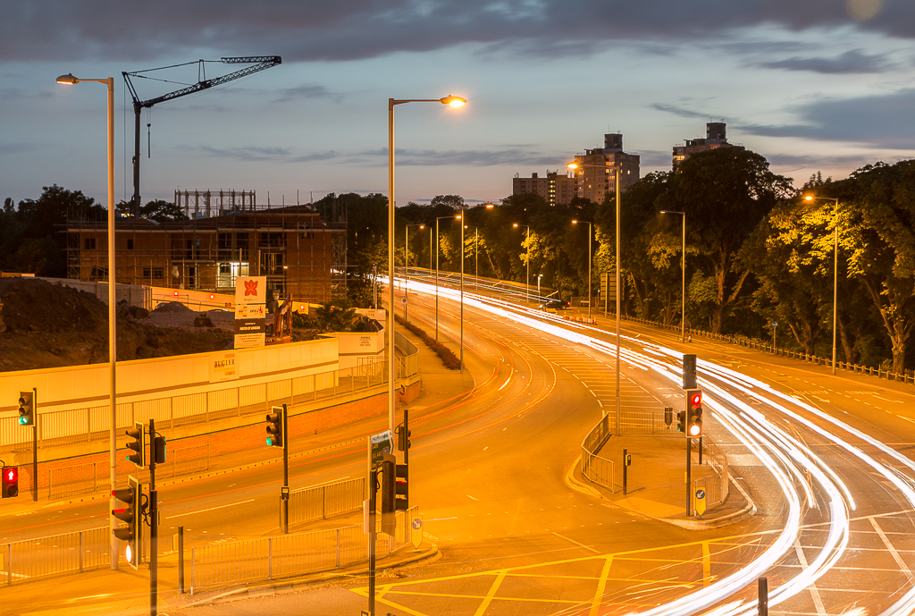 Junction of the A406 (North Circular Road) between Bounds Green and New Southgate, London